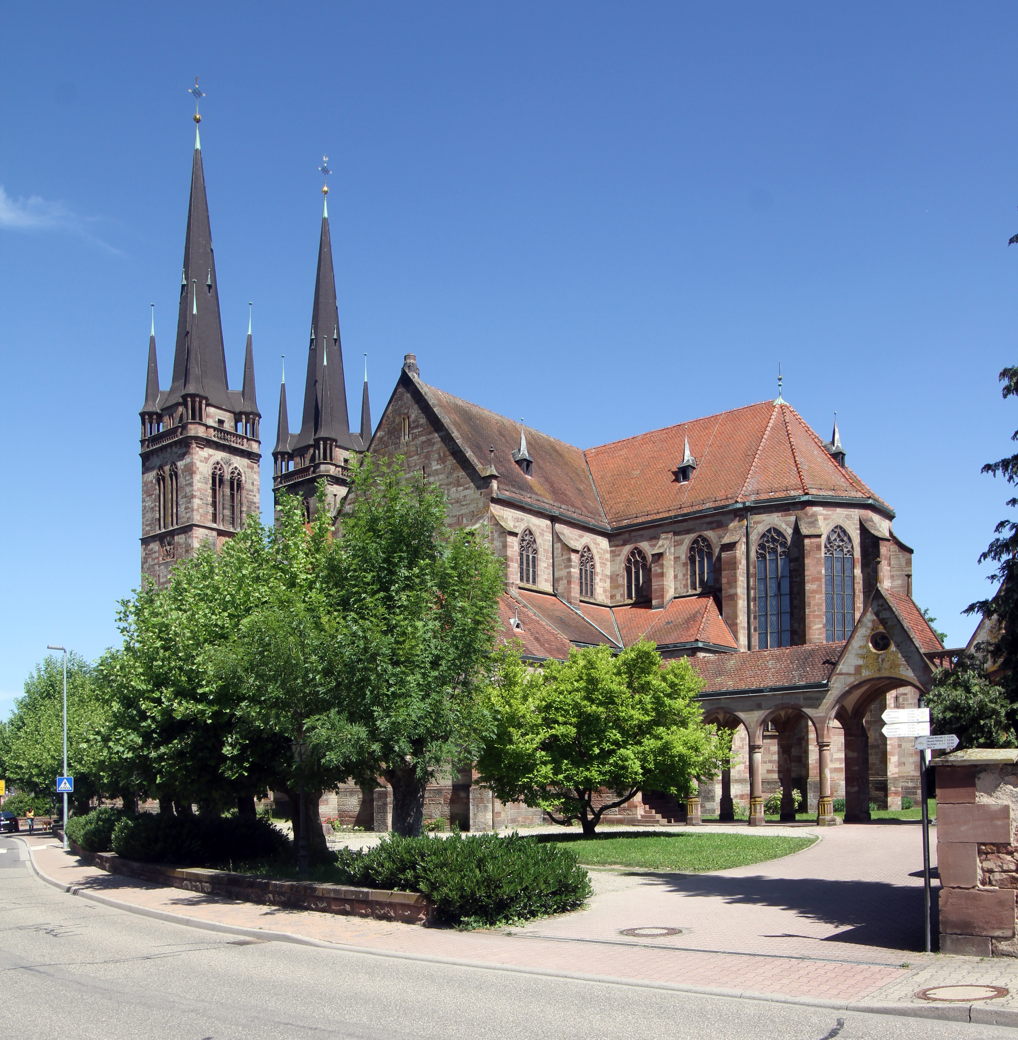 Church of St. Johannes in Ottersweier.